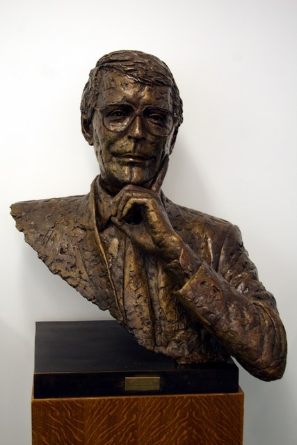 Sir John Major John Major, MP for Huntingdonshire and Huntingdon from 1979-2001 and Prime Minister of the United Kingdom 1990-1997, is represented in a thoughtful pose in this bust by Shenda Amery which is a feature of the new Huntingdon Library.